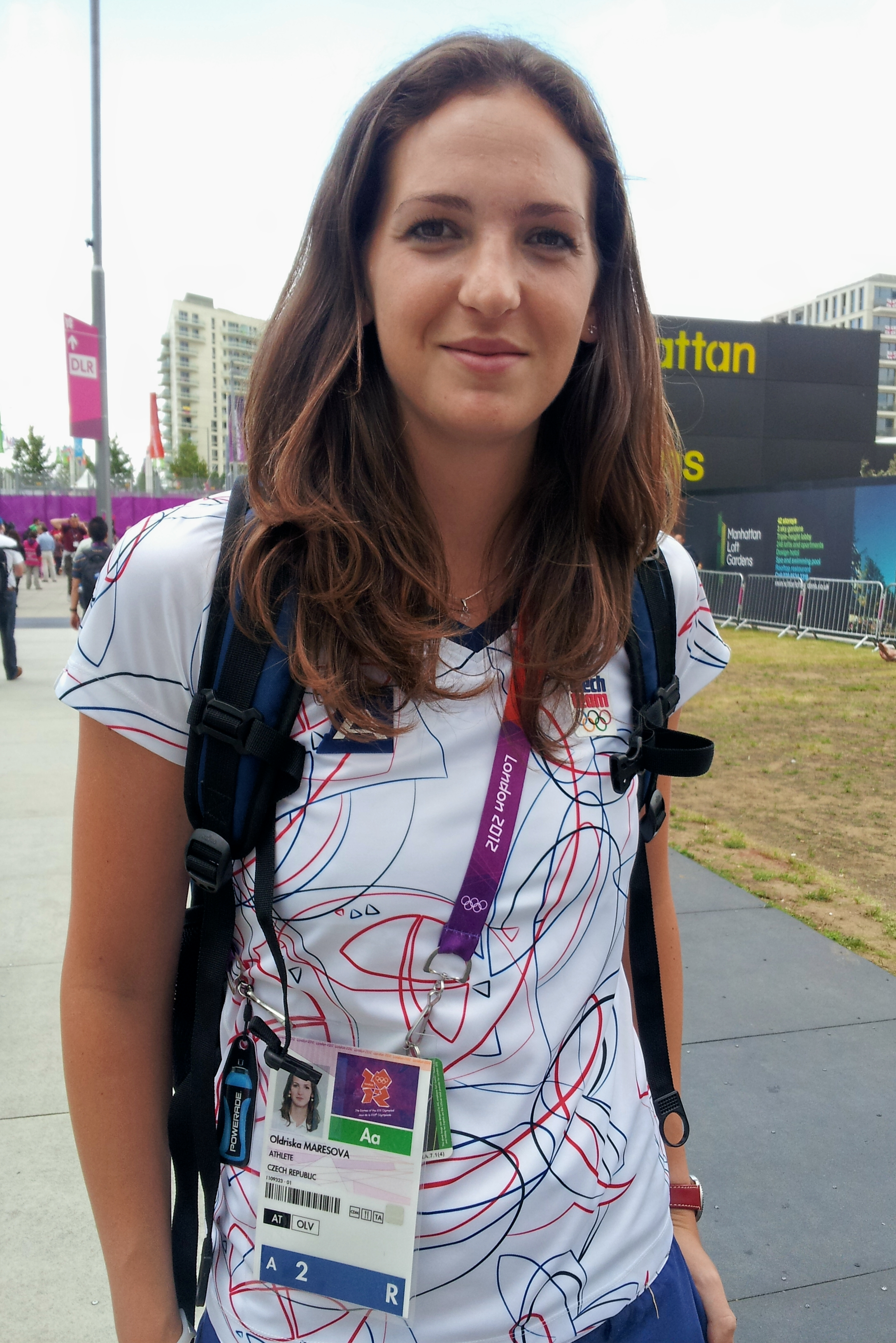 Czech high jumper Oldřiška Marešová, taken at The London 2012 Summer Olympic Games